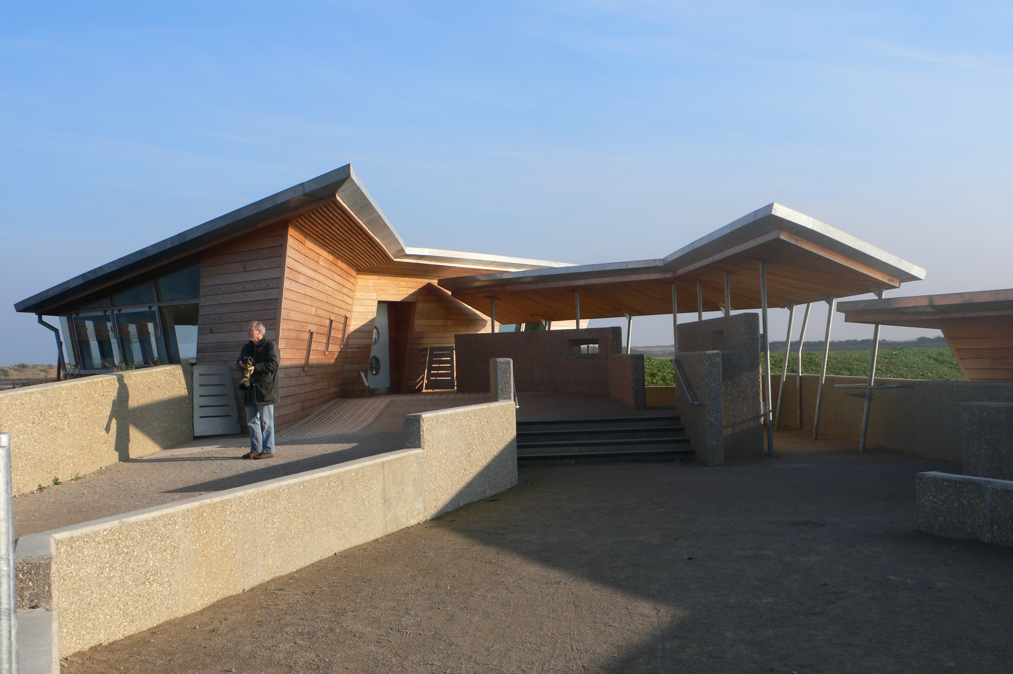 Titchwell Marsh RSPB. Parrinder hides (northern part)